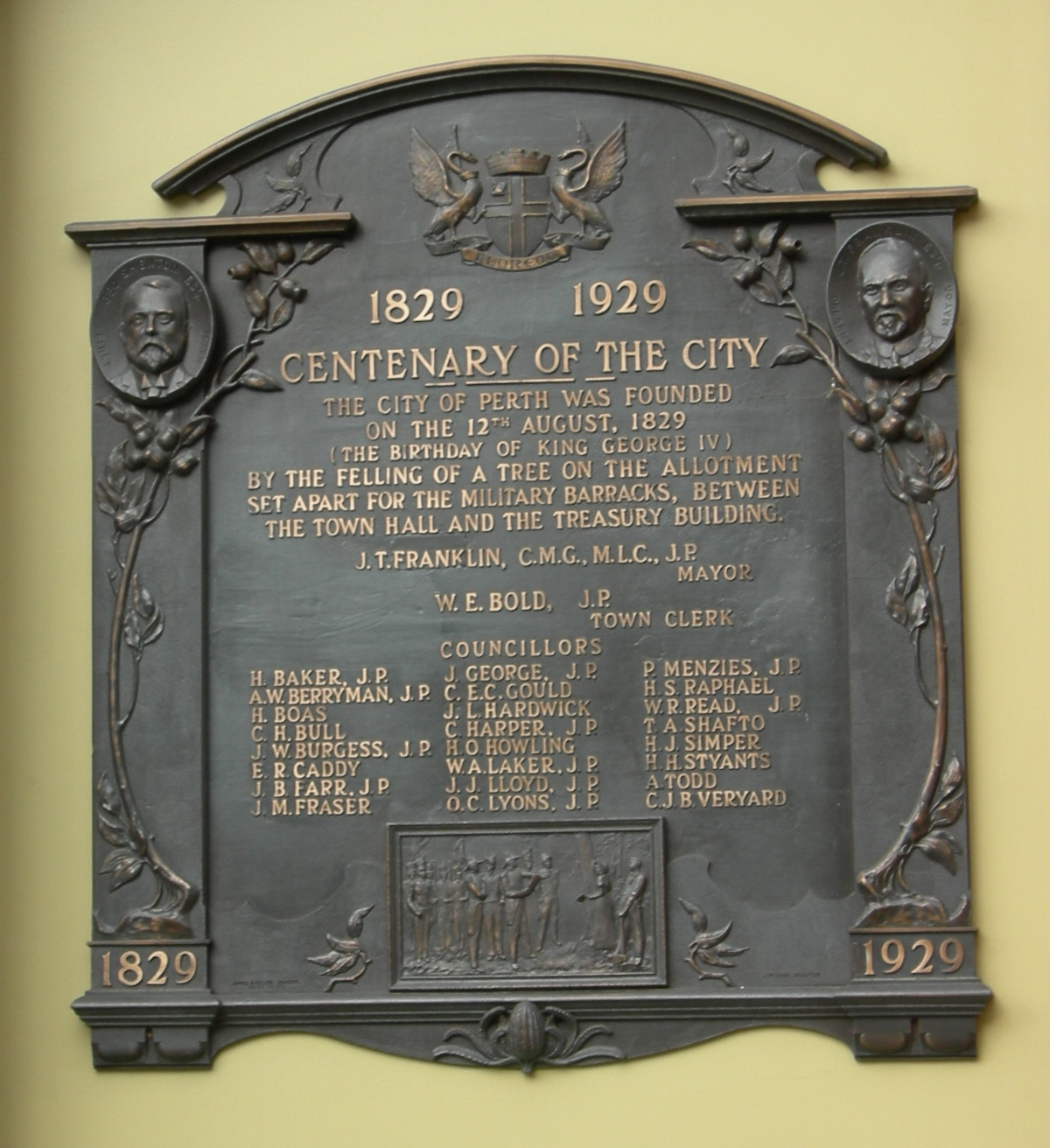 Centenary Plaque on Perth Town Hall wall, Barrack Street side.